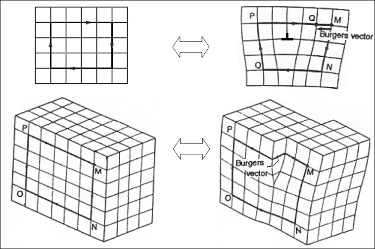 Scheme of the Burgers` vector in edge and screw dislocations